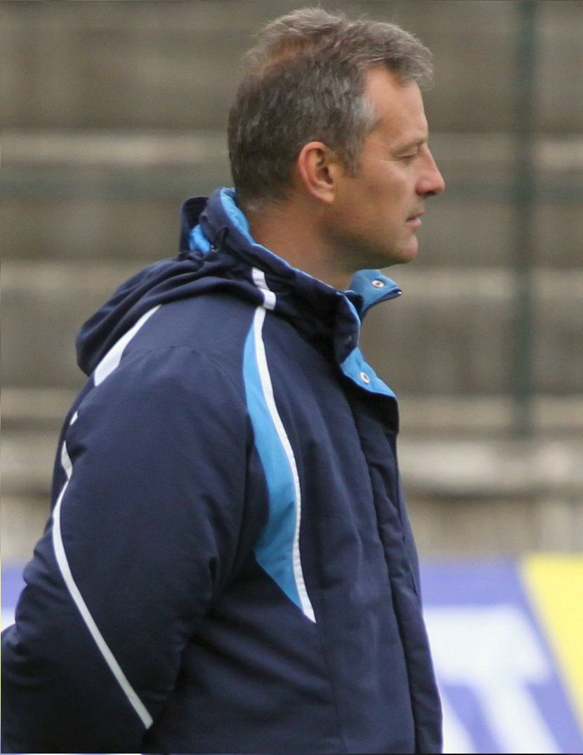 Samir Seliminski (born 9 May 1969 in Isperih) is a Bulgarian former football player and the current football manager of Akademik Sofia